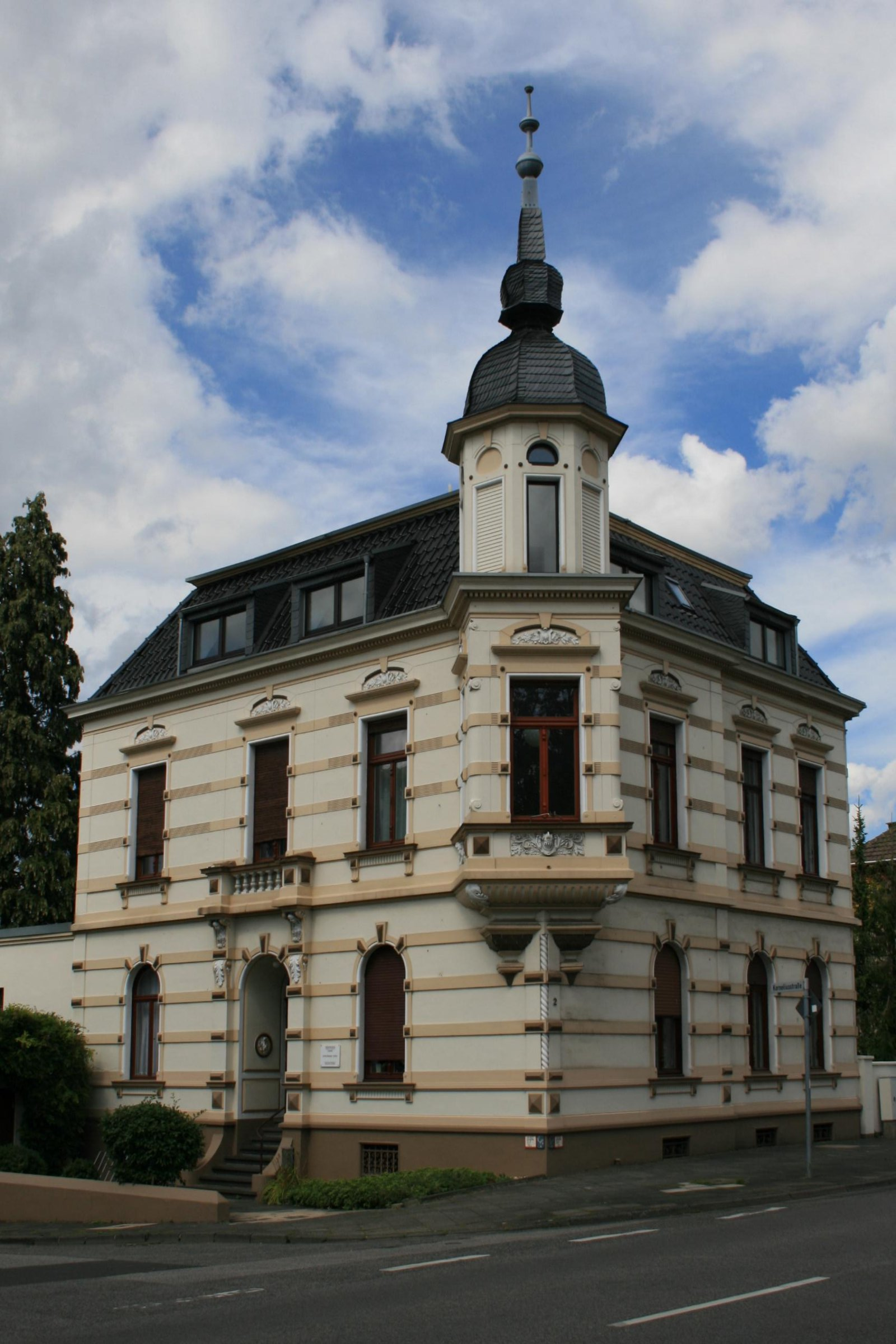 Cultural heritage monument No. M 051 in Mönchengladbach